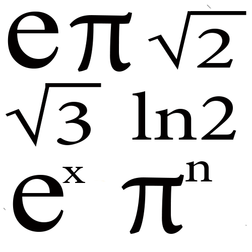 Irrational numbers